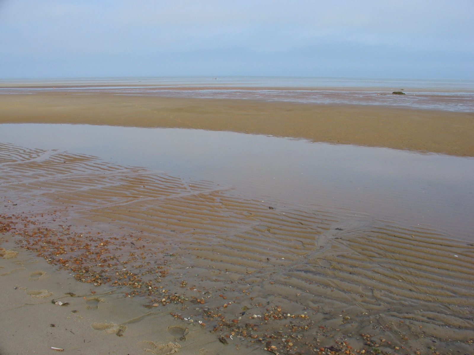 Mudflats in Brewster, Massachusetts extending hundreds of yards offshore at the low tide. The line of seashells in the foreground indicates the high water mark. Taken by the uploader on May 31, 2006.